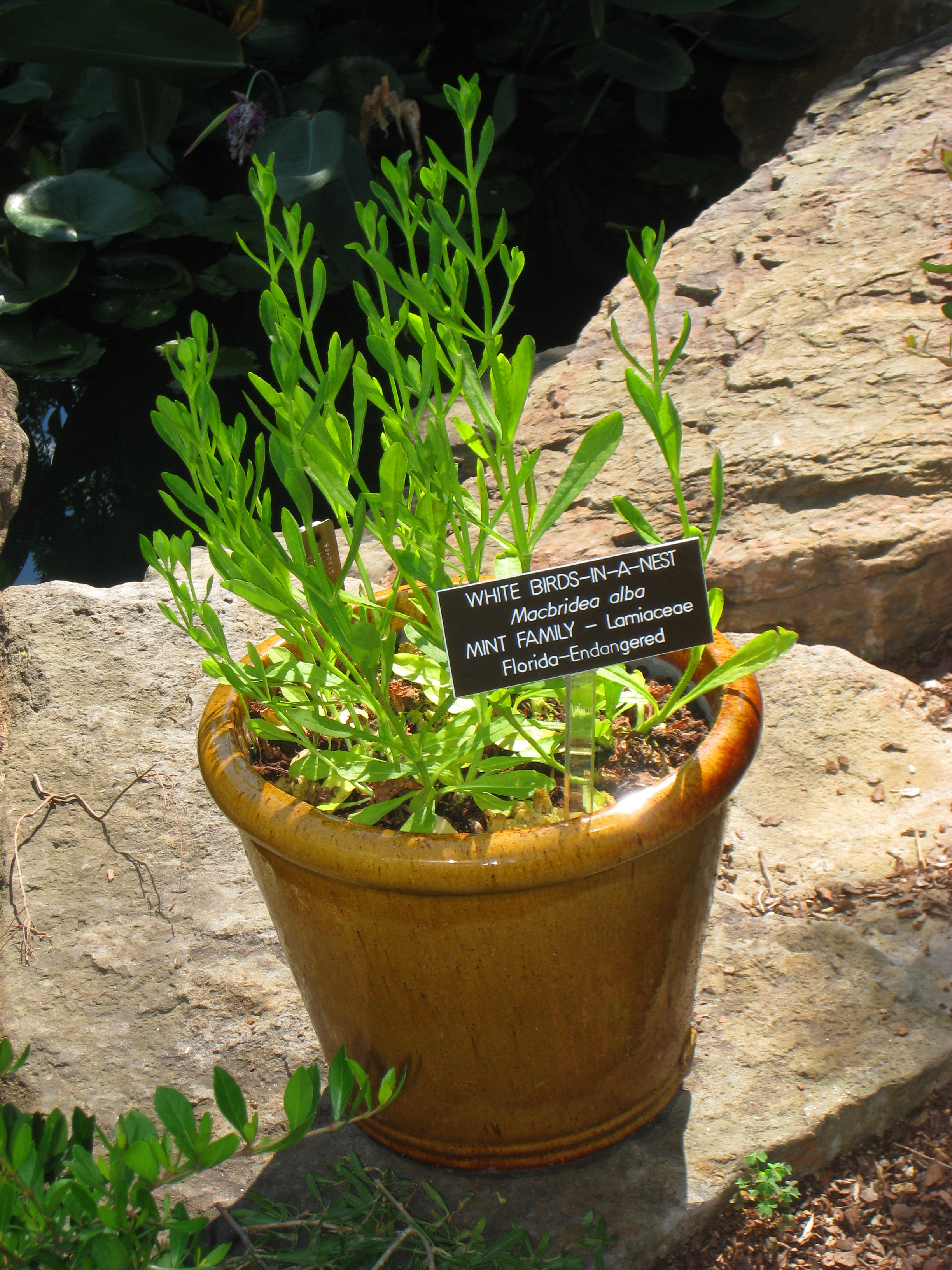 Macbridea alba, in the United States Botanic Garden, Washington, DC, USA.